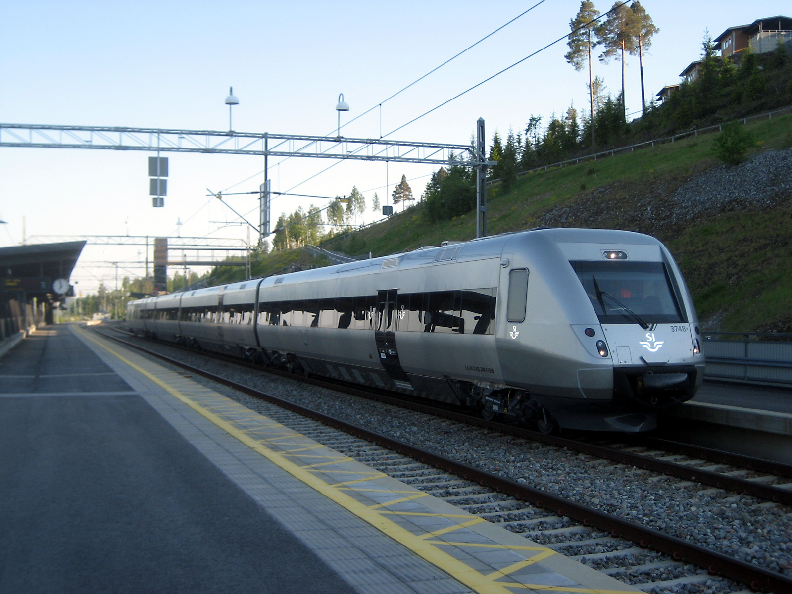 A Regina train (model X55) in Örnsköldsvik, Sweden.